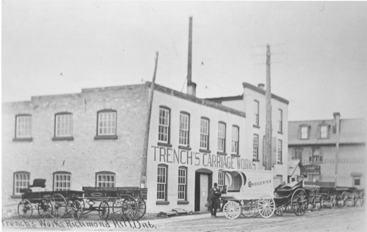 Exterior of Trench's Carriage Works of Richmond Hill, Ontario, Canada in the 1870s. Also visible are various carriages manufactured there.